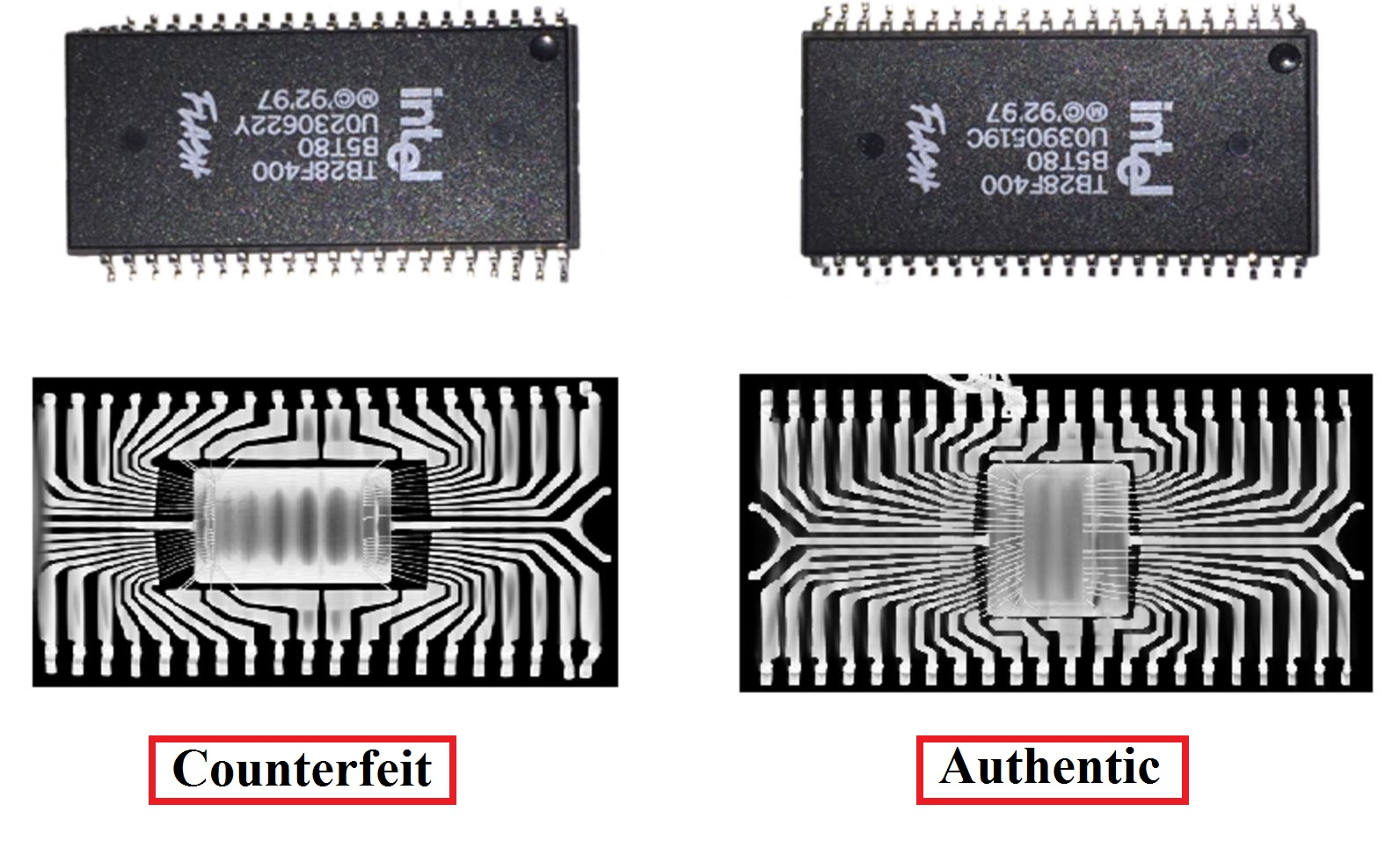 Using X-ray for authentication and quality control in electronics industry